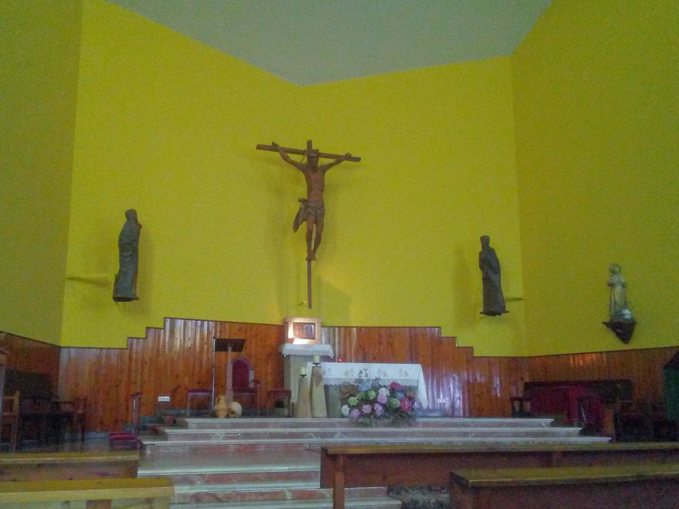 Parroquia San Pío X (Ourense)